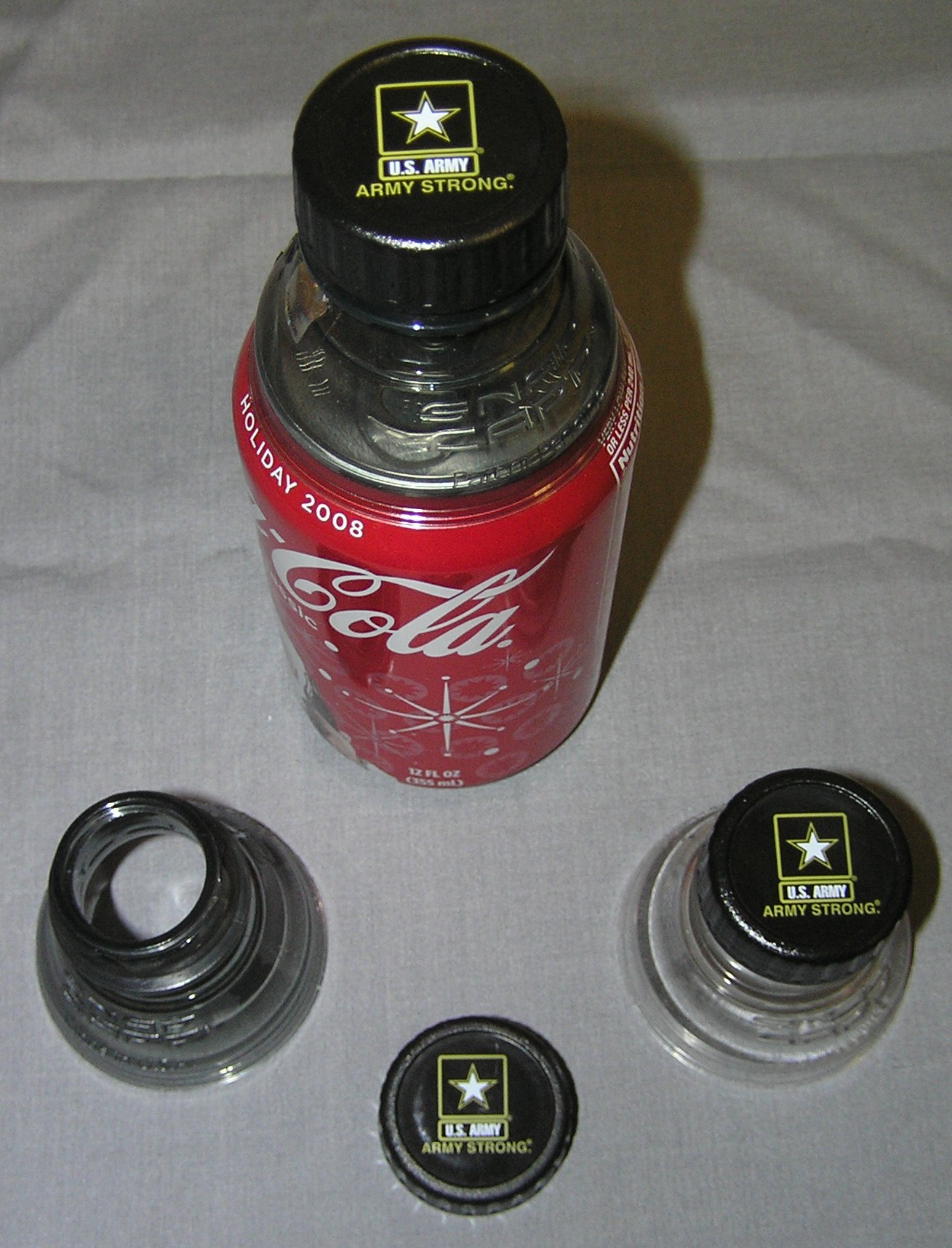 Army Strong Snap Capps